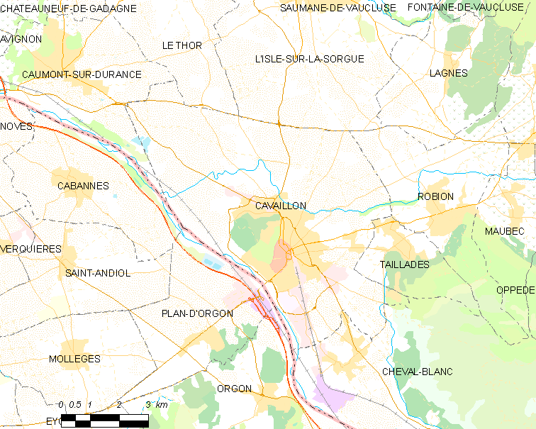 Map of French municipality Cavaillon